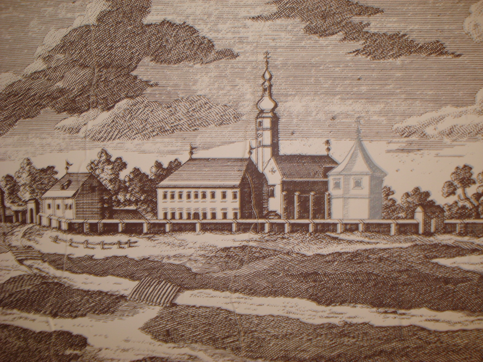 Sveta Jelena (Croatia) - Pauline monastery in the 18th century (today ruined)